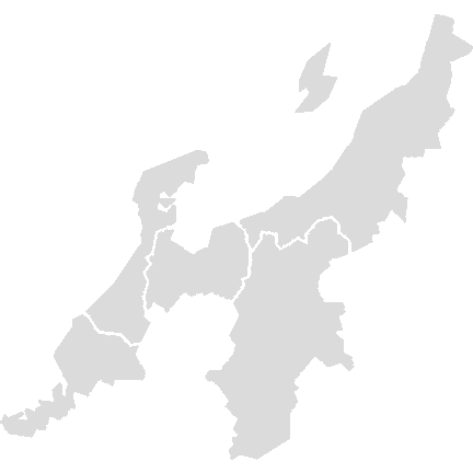 Grey map of Hokushin'etsu region intended to be used for football templates.